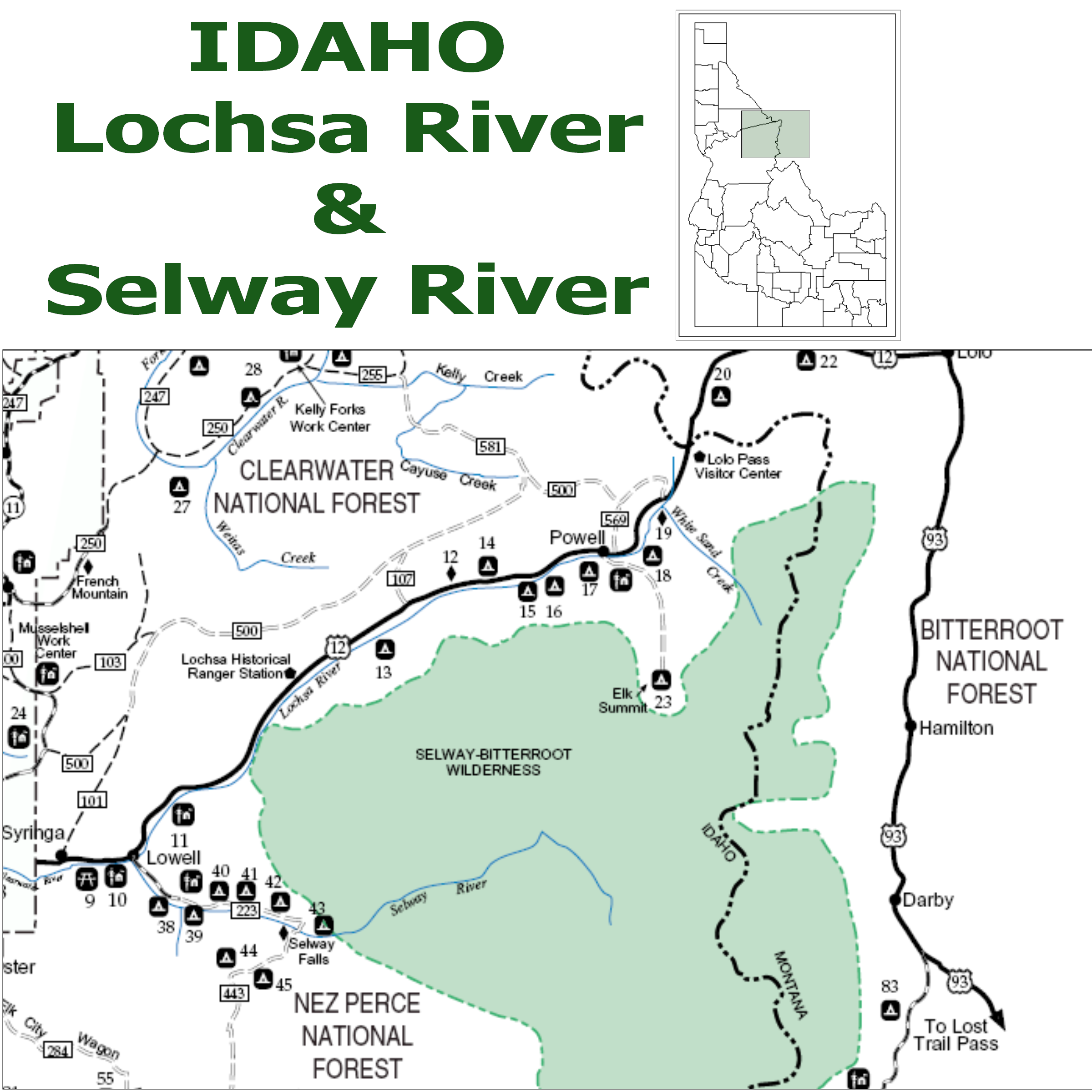 Map of Idaho with the Selway River region highlighted.